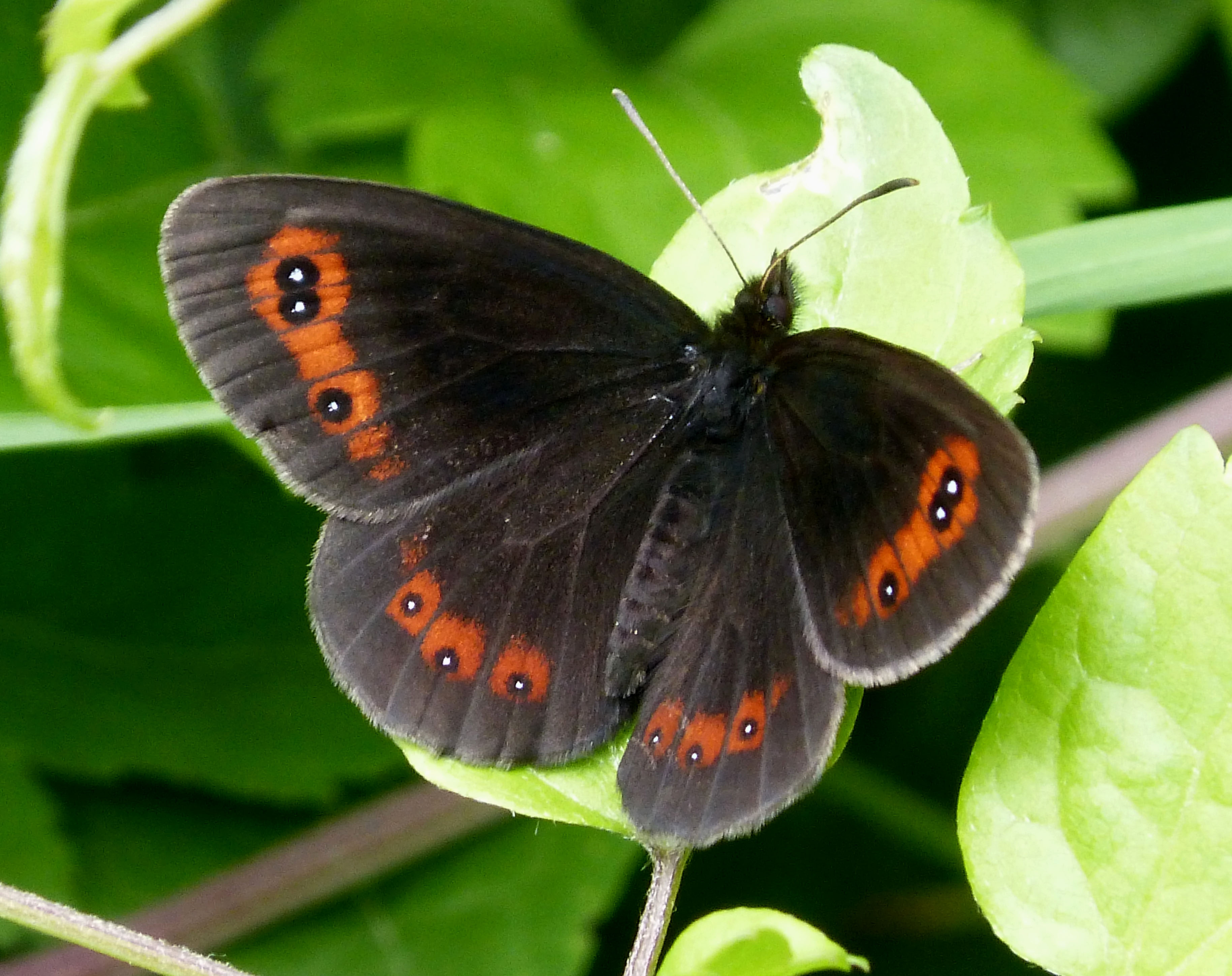 Scotch Argus. Erebia aethiops.